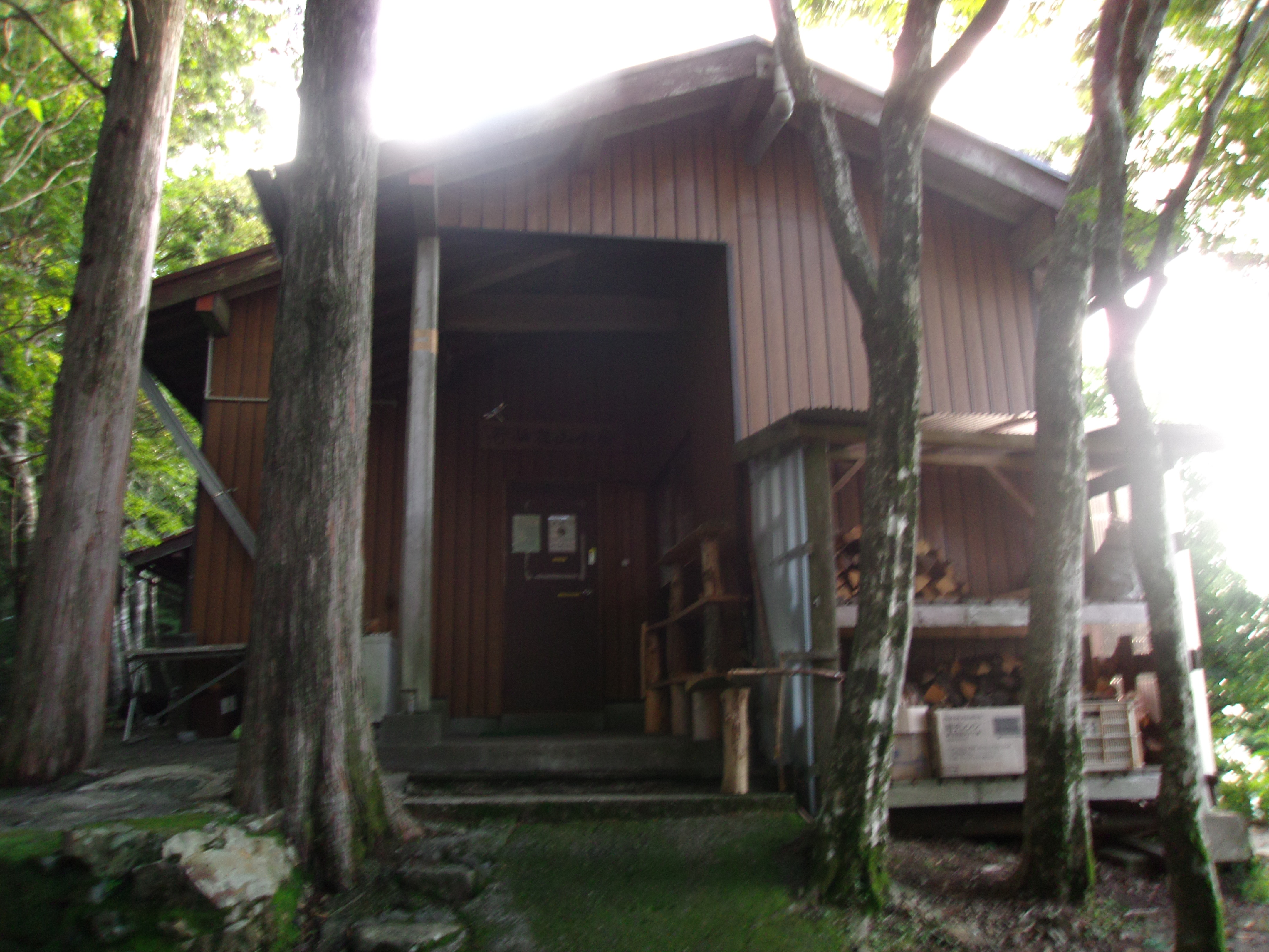 Mountain hut Gyosen-no-shuku yamagoya on the Omine okugake-michi trail in the Omine Mountains, Nara Prefecture, Japan